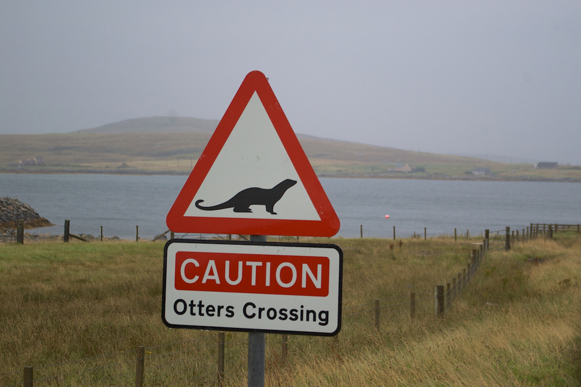 A road sign near Benbecula warning drivers about otters crossing the road.